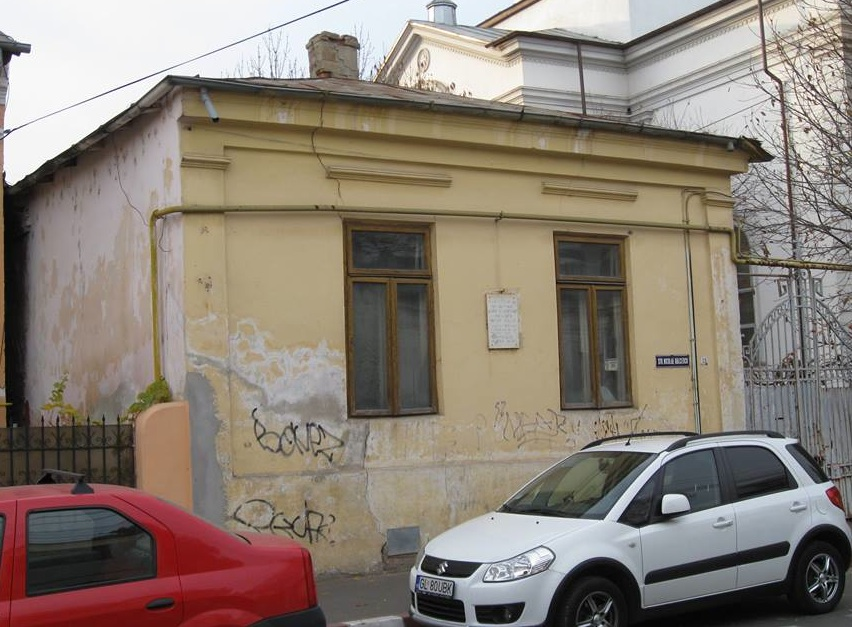 Old Bulgarian school, Galați, Romania.